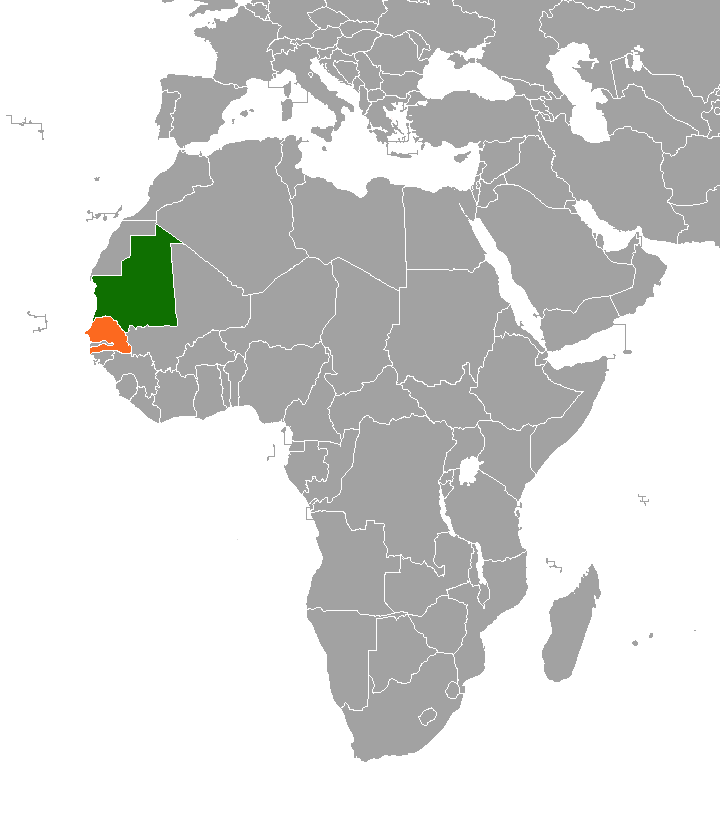 Mauritania-Senegal locator map.